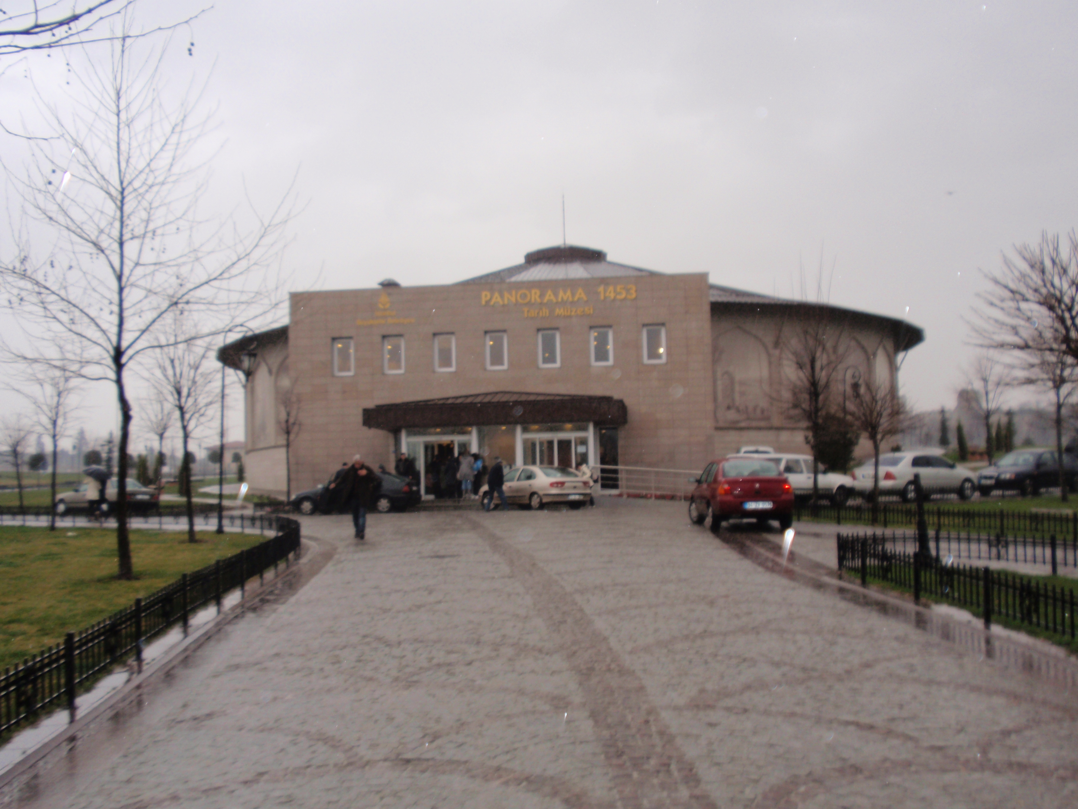 Museum of Panorama 1453